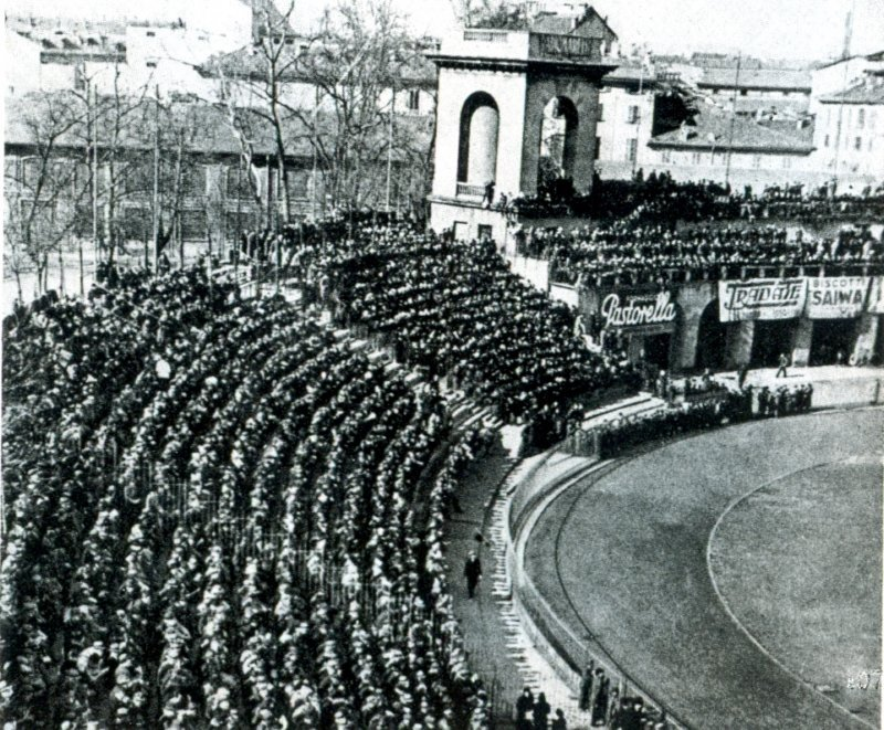 FC Inter; Stadium "Arena"